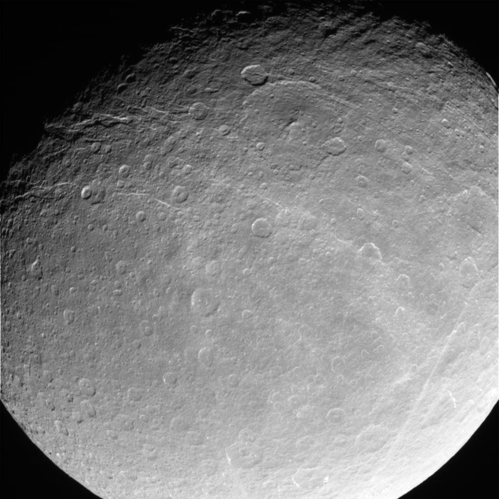 Raw image of the wispy trailing hemisphere of Saturn's moon Rhea, taken by the Cassini spacecraft January 17, 2006. The streaks are revealed to consist of ice cliffs similar to those of Dione.